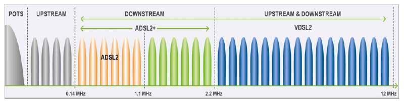 comparison of frequencies ADSL2 and VDSL